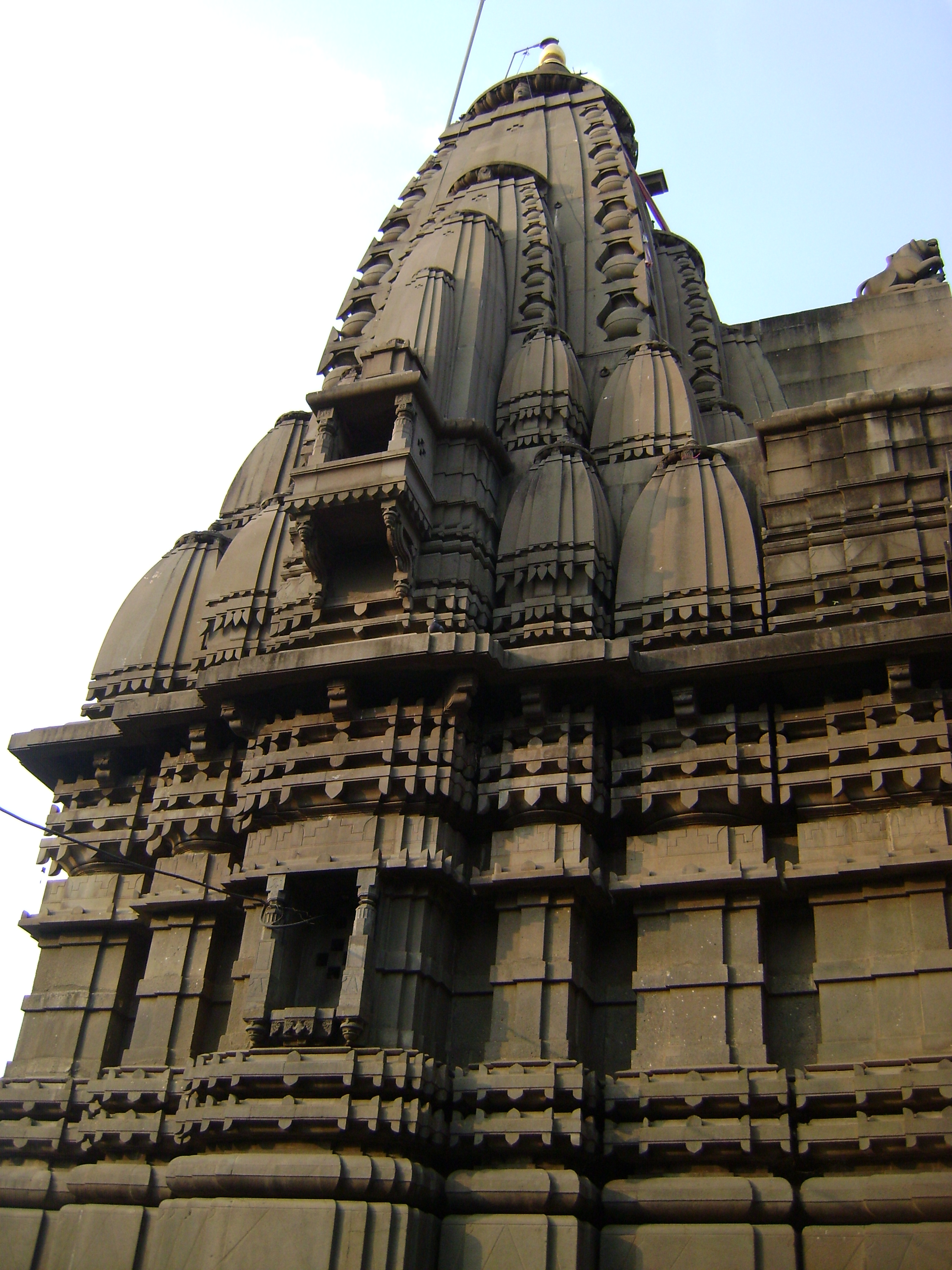 Kalaram Temple, Panchavati, Nashik